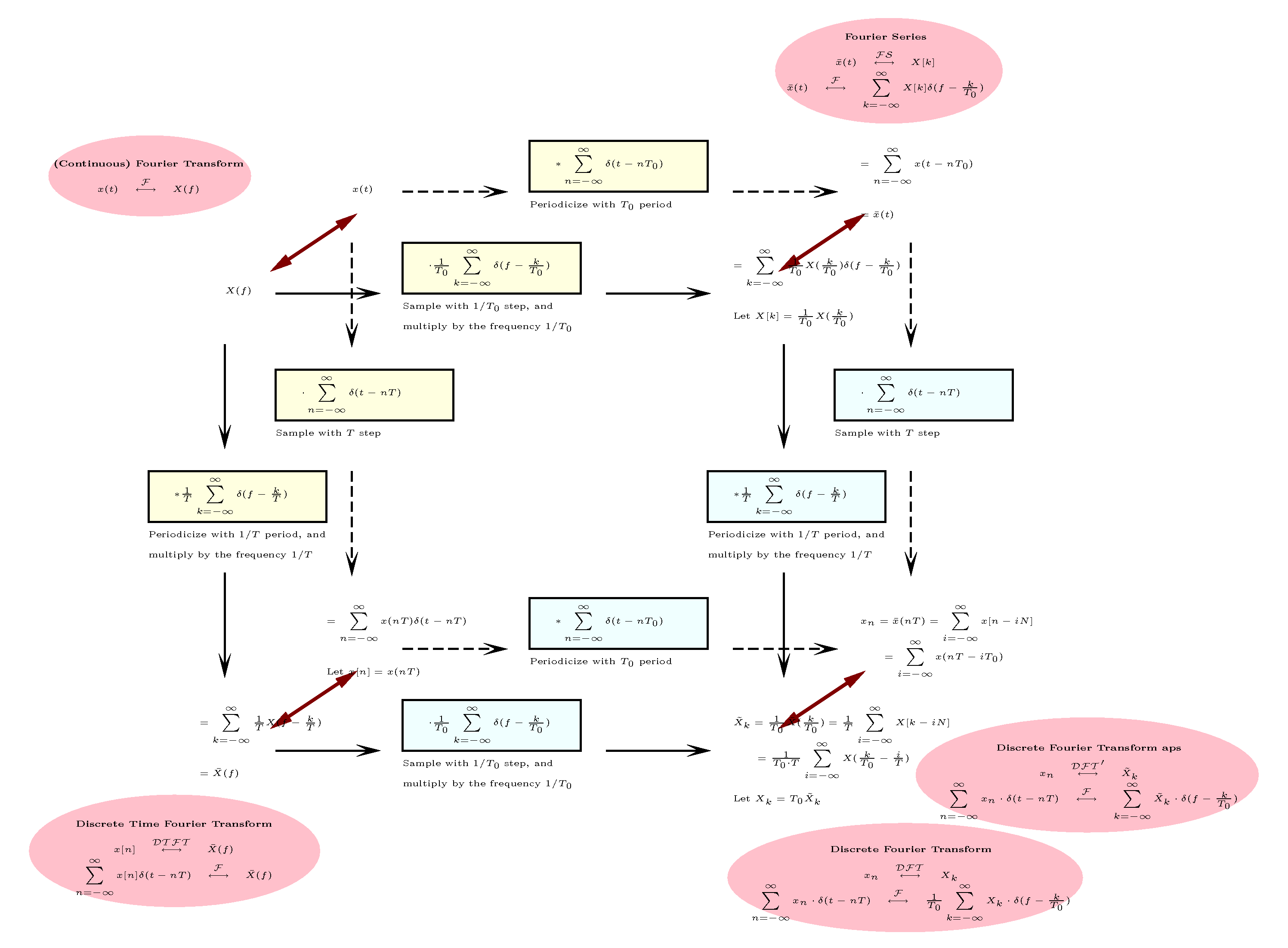 The relationship of four Fourier transforms from Fourier transform family.